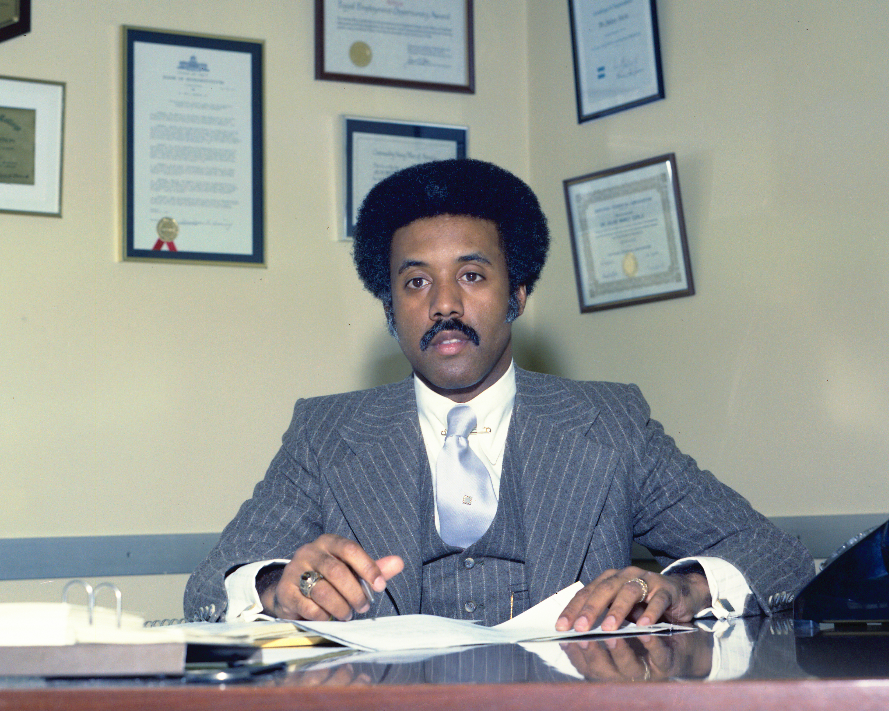 A photograph of Julian Manly Earls at his desk